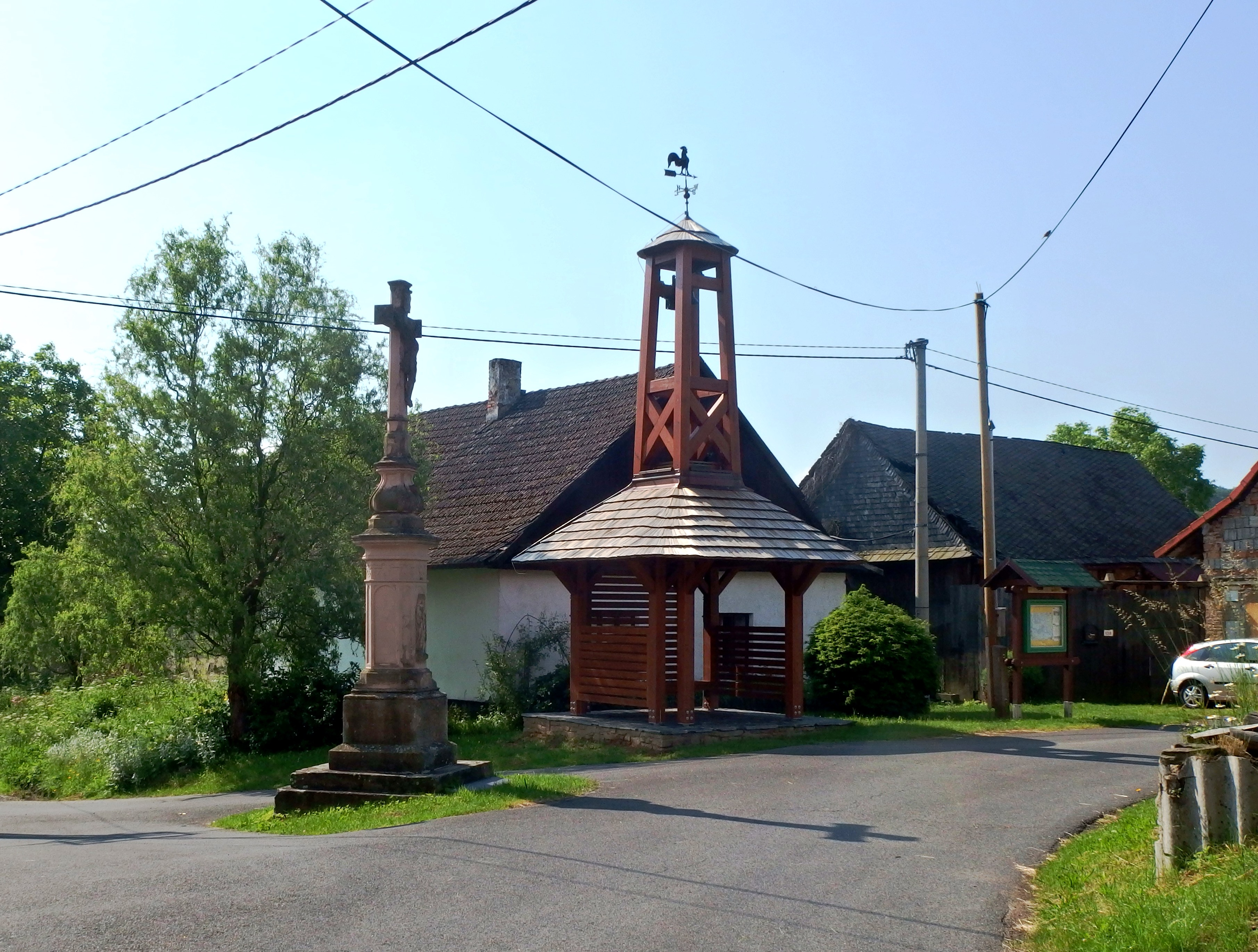 Olšovec, Přerov District, Czechia, part Boňkov.